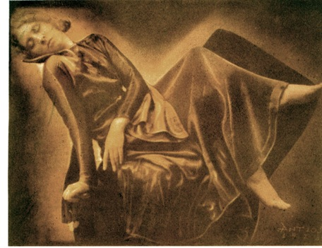 Hilde Holger 1925, image